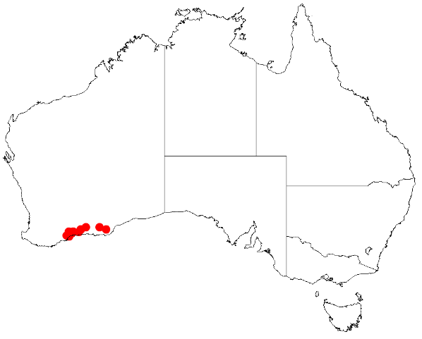 Scaevola densifolia occurrence data from Australasian Virtual Herbarium downloaded 12 May 2019 (no doi)